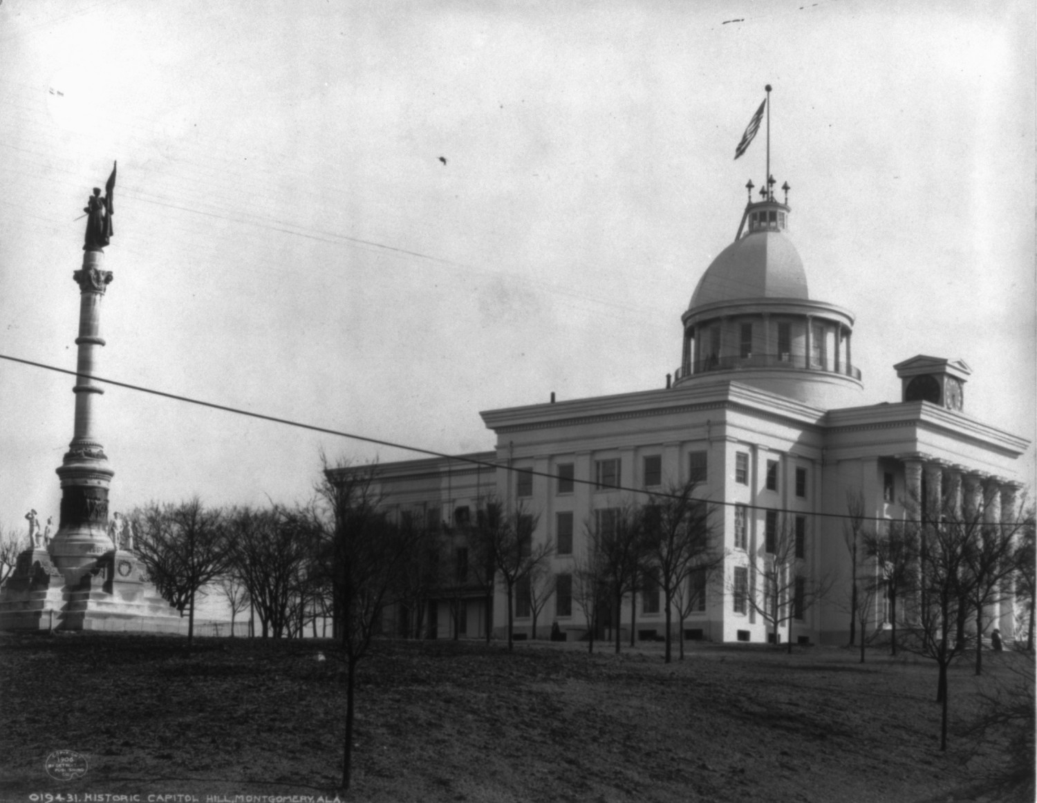 Historic Capitol Hill (Alabama State Capitol in Montgomery in 1906).